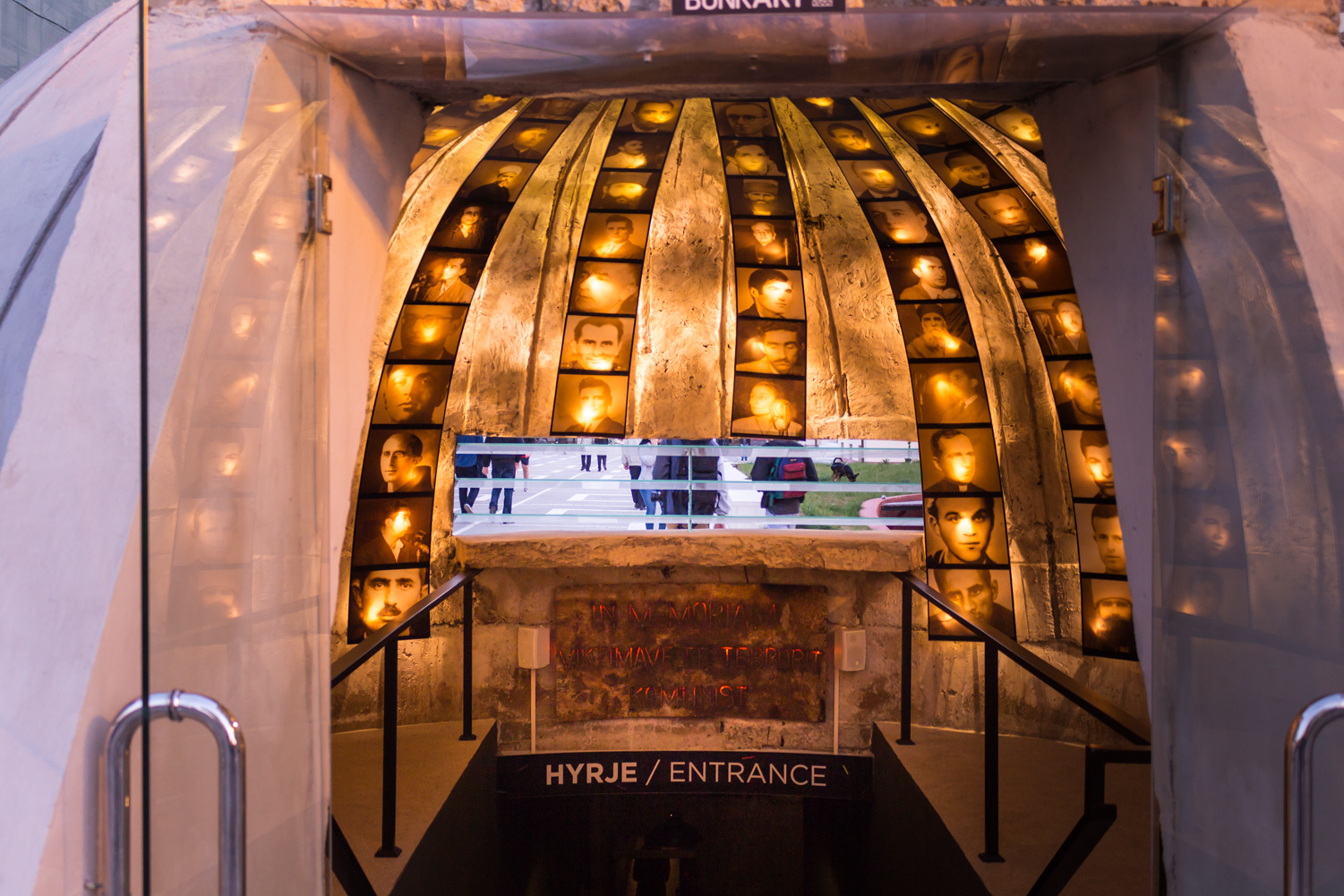 Bunk'art Tirana